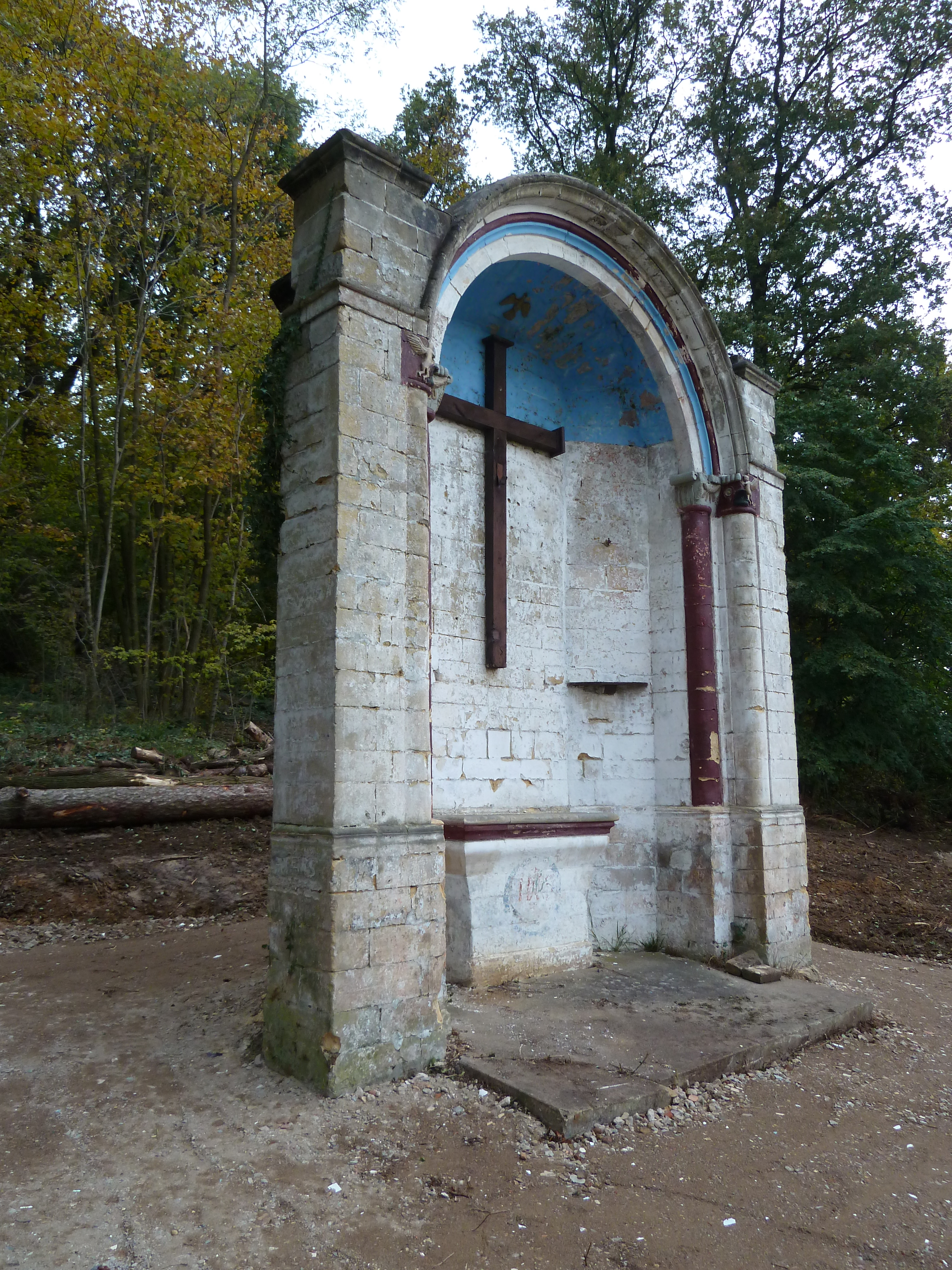 Calvariekapel, Houthem, Limburg, the Netherlands